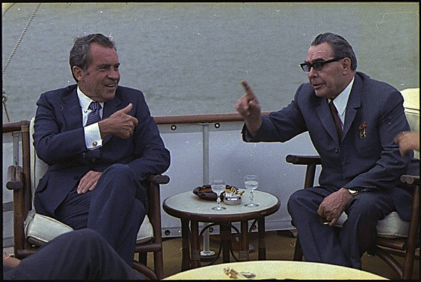 US President Richard M. Nixon and the USSR leader Leonid Brezhnev aboard the USS Sequoia , June 19, 1973.